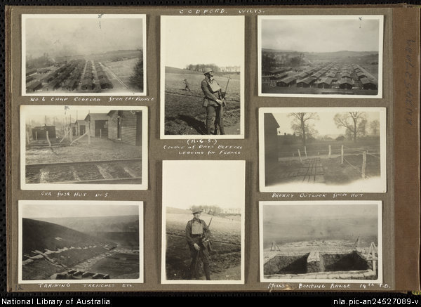 [Army training camp at Codford, Wiltshire, England, 1917, 1] [picture] / R.C. Strangman